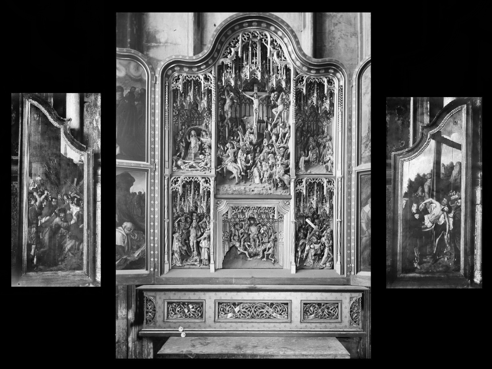 Maastricht, the Netherlands. Reconstruction of the Altar of the Passion, consisting of a late-Gothic sculpted reredo (Meuse valley, ca. 1530) with two painted wings attached, dating from around 1600. This was how the altar, according to Van Nispen tot Sevenaer, was displayed, originally in a chapel, later in the Church Treasury ofSaint Servatius, from ca. 1925 until ca. 1980. The original photos are by G. de Hoog (1913 & 1915); the photo montage is by Kleon3.